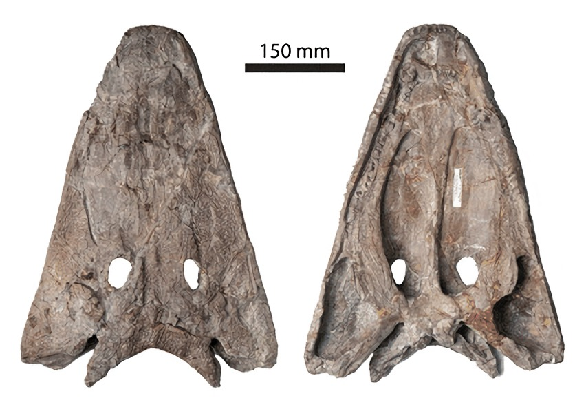 Skull of Parotosuchus helgolandicus.